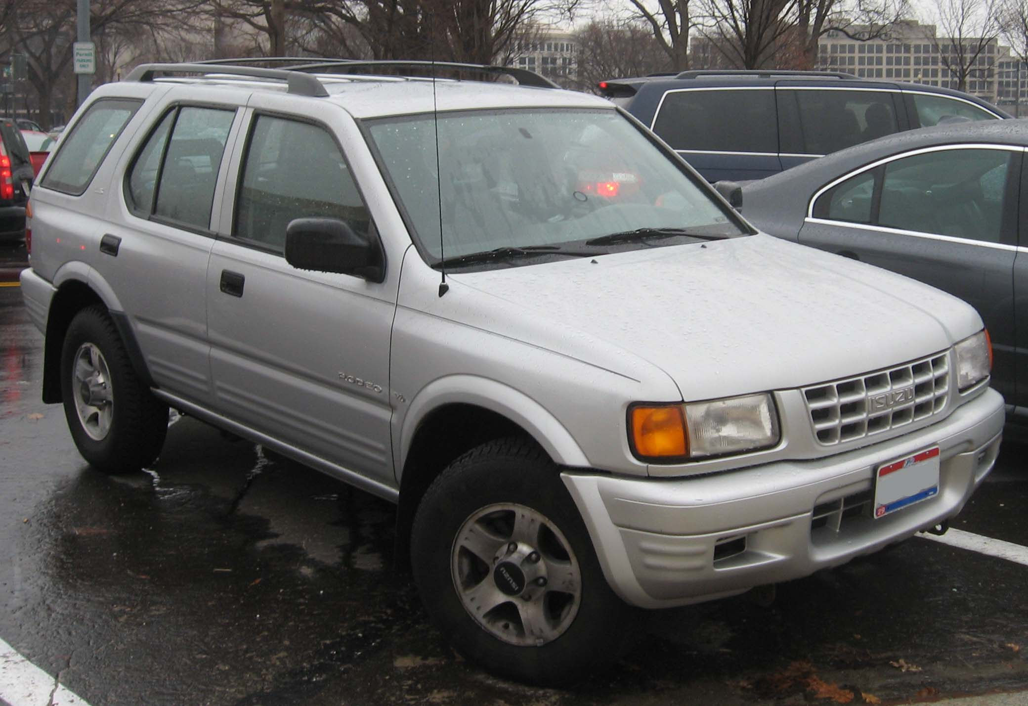 1998-2000 Isuzu Rodeo photographed in Washington, D.C., USA.